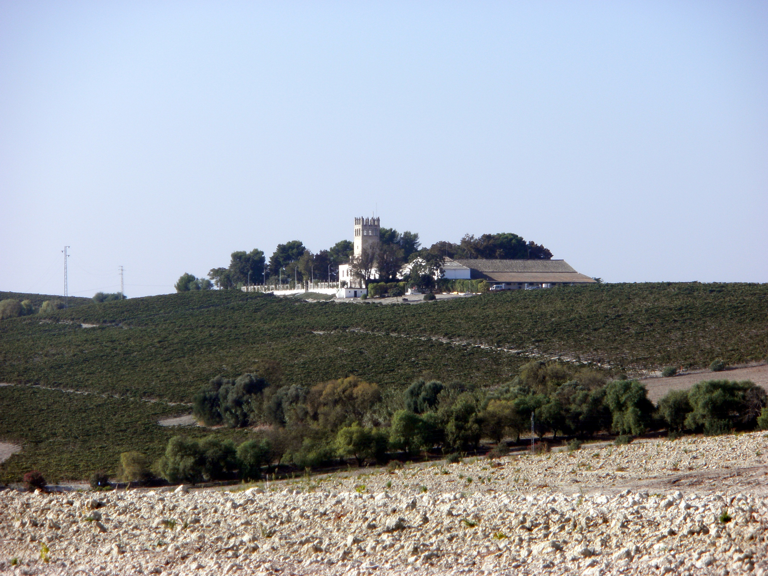 Marchanudo Tower, Jerez de la Frontera, Spain.